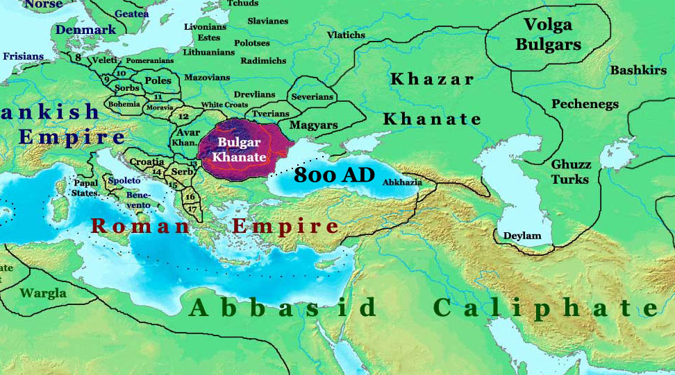 The First Bulgarian Empire in 800 AD.